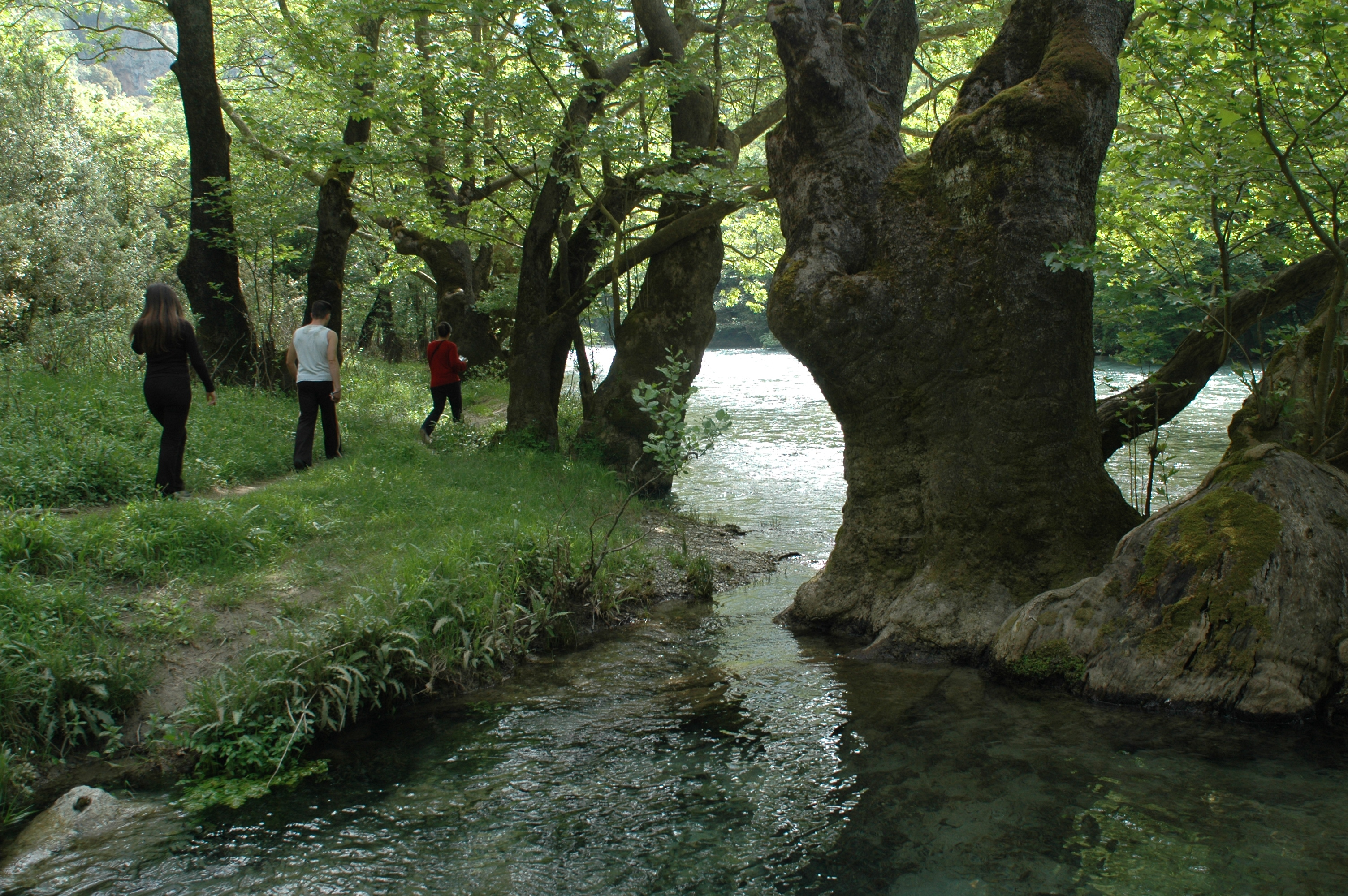 Greek hikers on the path on the east bank of the Voidomatis, upstream from the Klidonia bridge. Right: probably a Platanus orientalis.